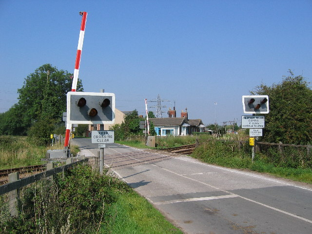 Beverley Parks Crossing, west south west of Woodmansey, East Riding of Yorkshire, England.This is the rail line from Hull through Beverley in a grid square which is mostly farmland.